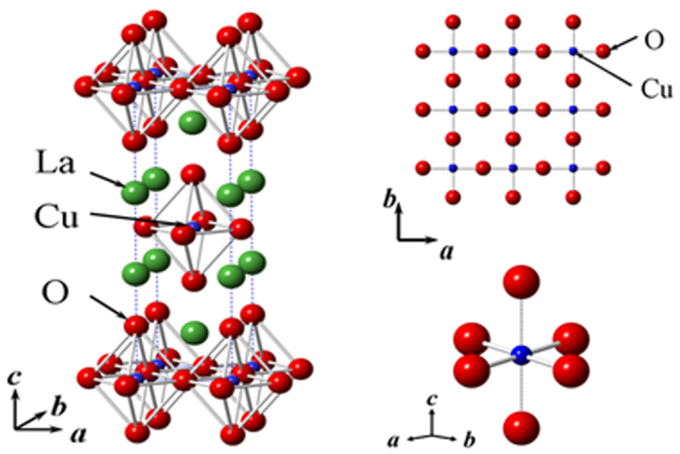 Crystal structure of La2CuO4, top view (top-right) and CuO6 octahedron (bottom-right).